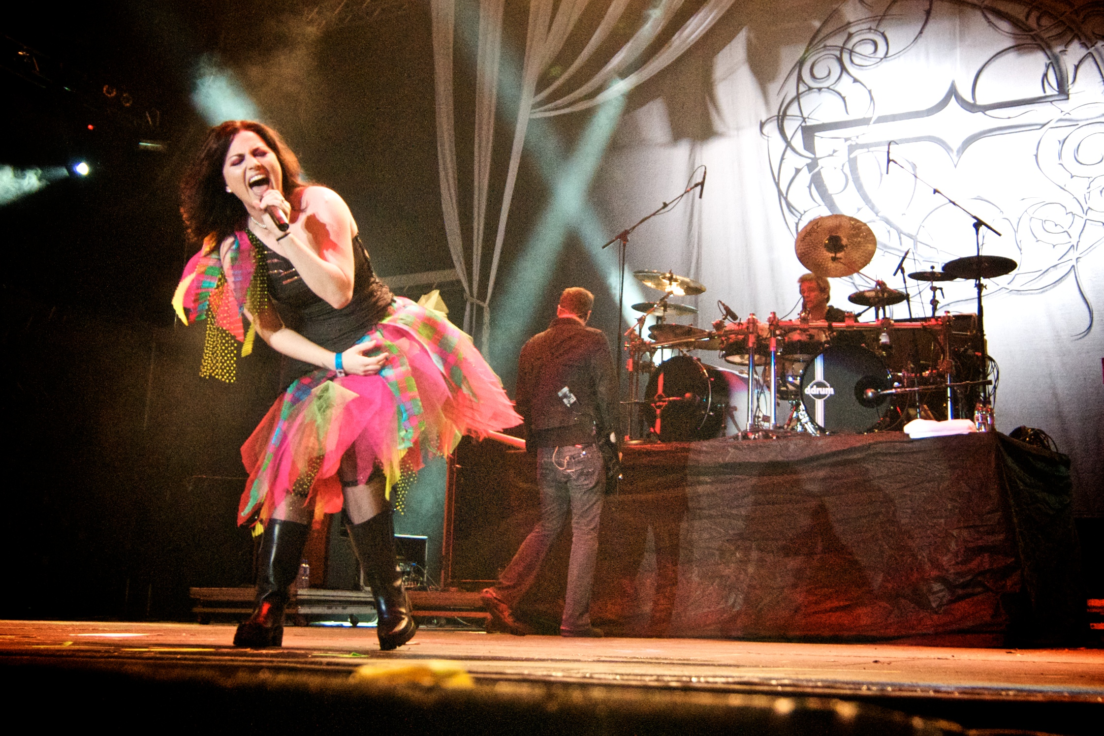 Amy Lee of Evanescence in Maquinária Festival, occurred in November 8 2009 at Chácara do Jóquei, São Paulo, Brazil.